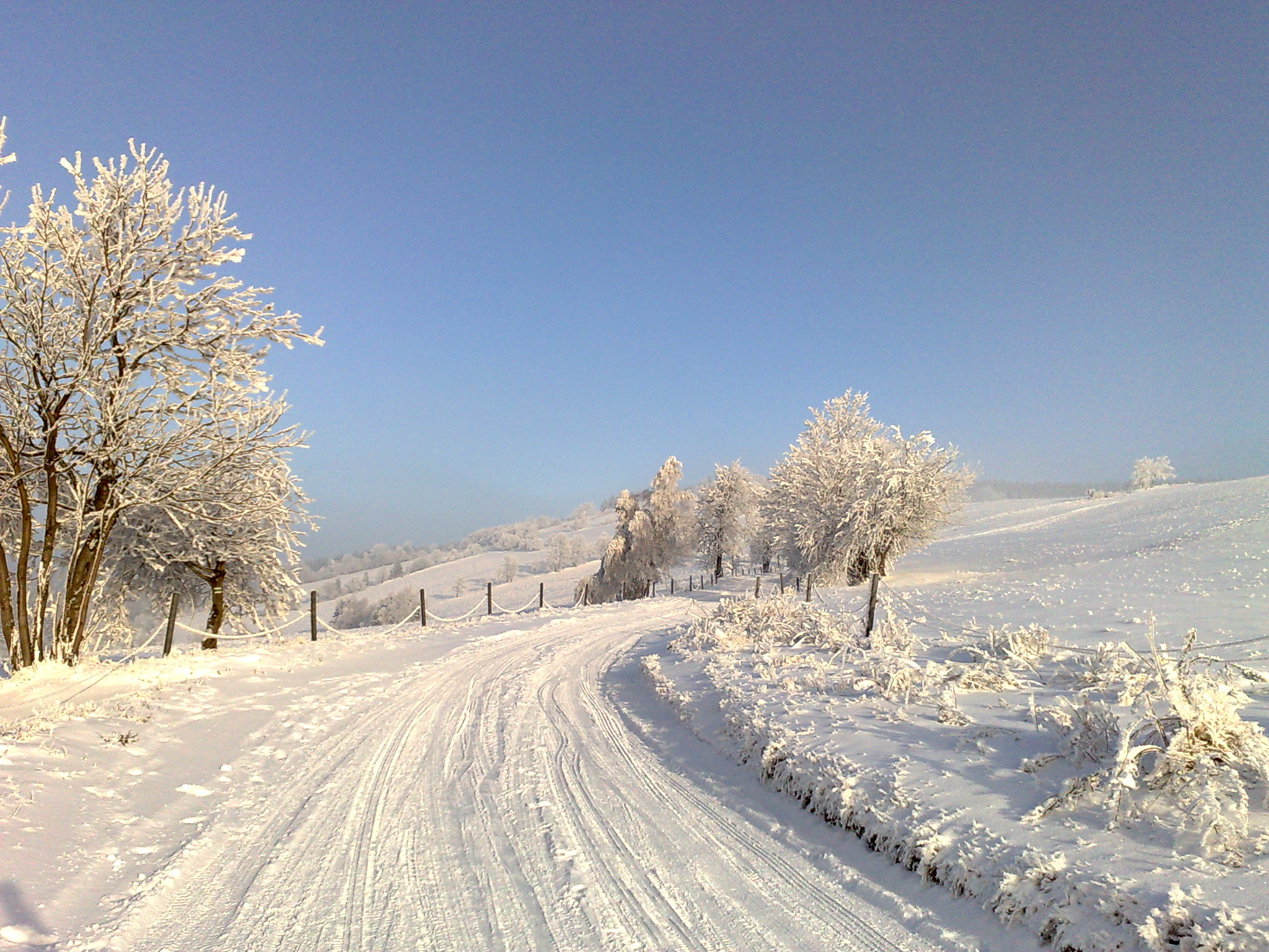 Heřmanovice in the middle of winter - short way to Petrovice